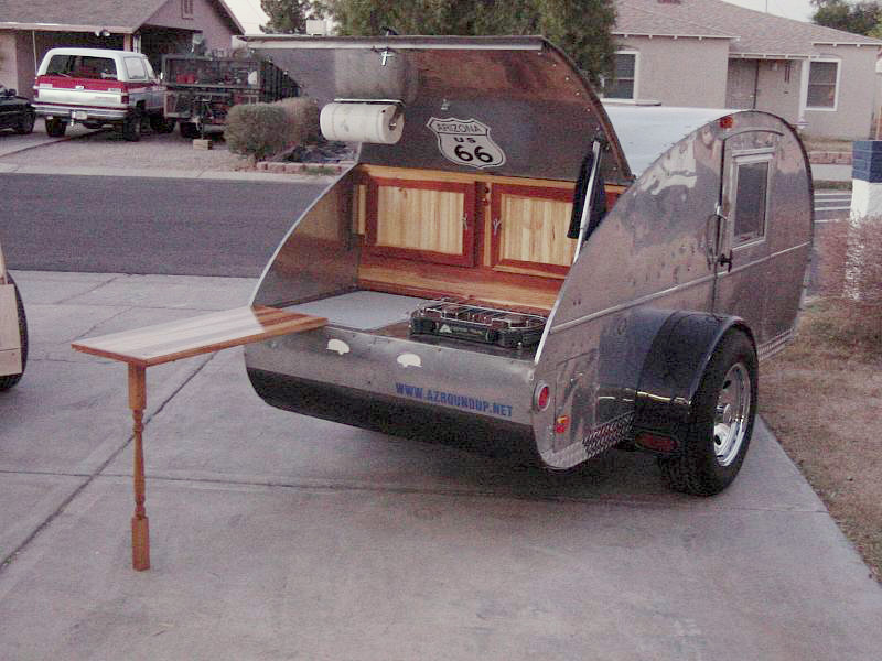 Teardrop trailer. Showing kitchen area.